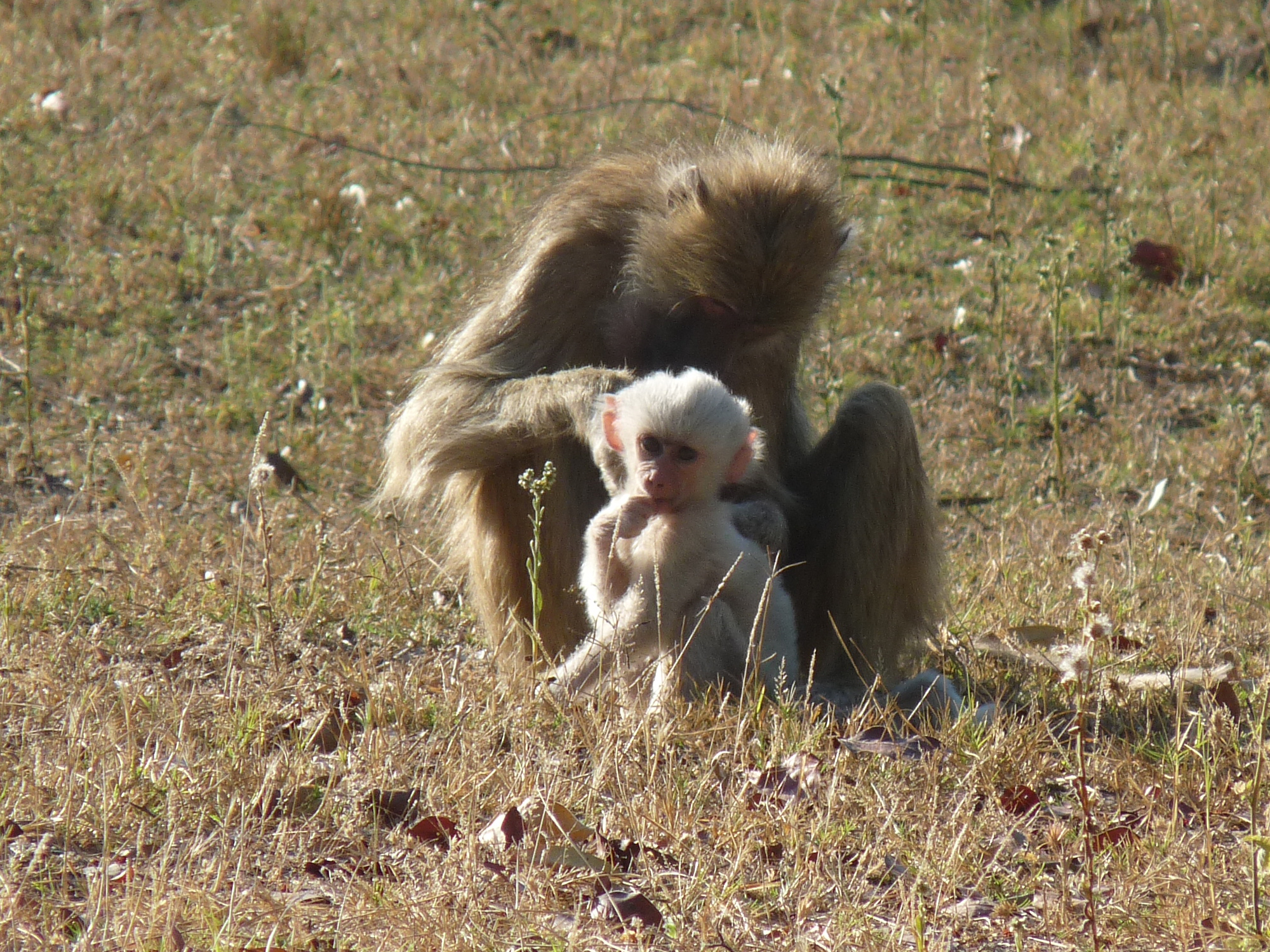 Kinda baboon mother with white infant at Chunga, Kafue National Park, Zambia